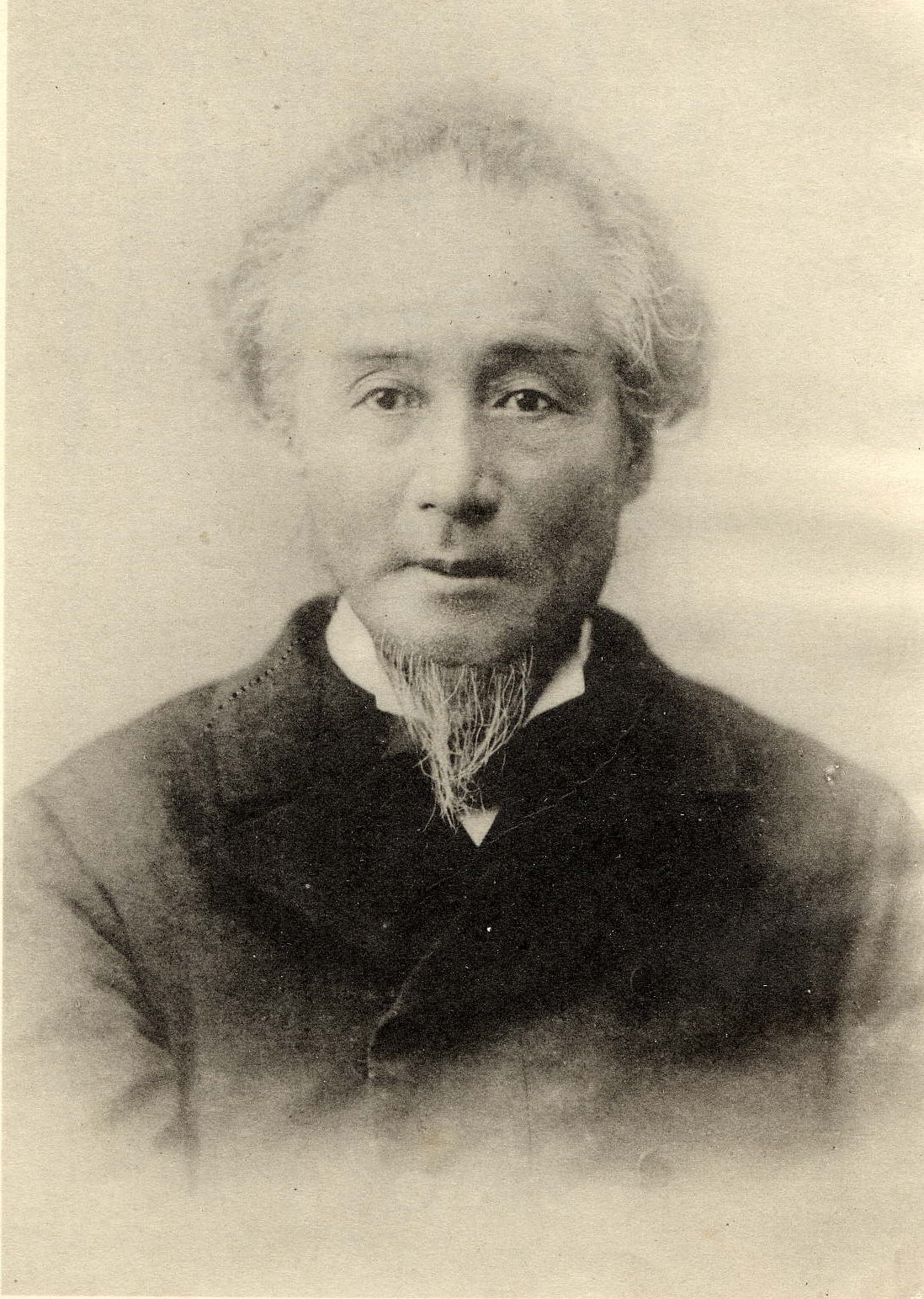 Katsu Kaishu（勝海舟） was a politician in Japan about the last years of the Edo period.